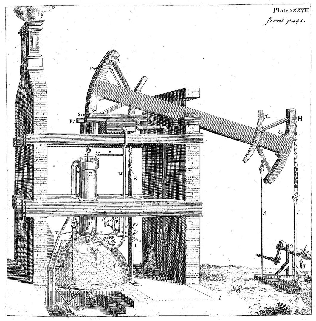 Savery steam pump from A Course of Experimental Philosophy, 1734, vol. 2.